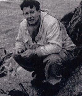 James Fisher on Rockall, during the 1955 Royal Navy expedition to raise the Union Flag